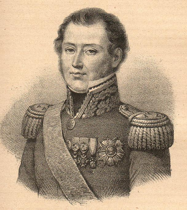 portrait of General Baron Pierre Berthezène 1775-1847